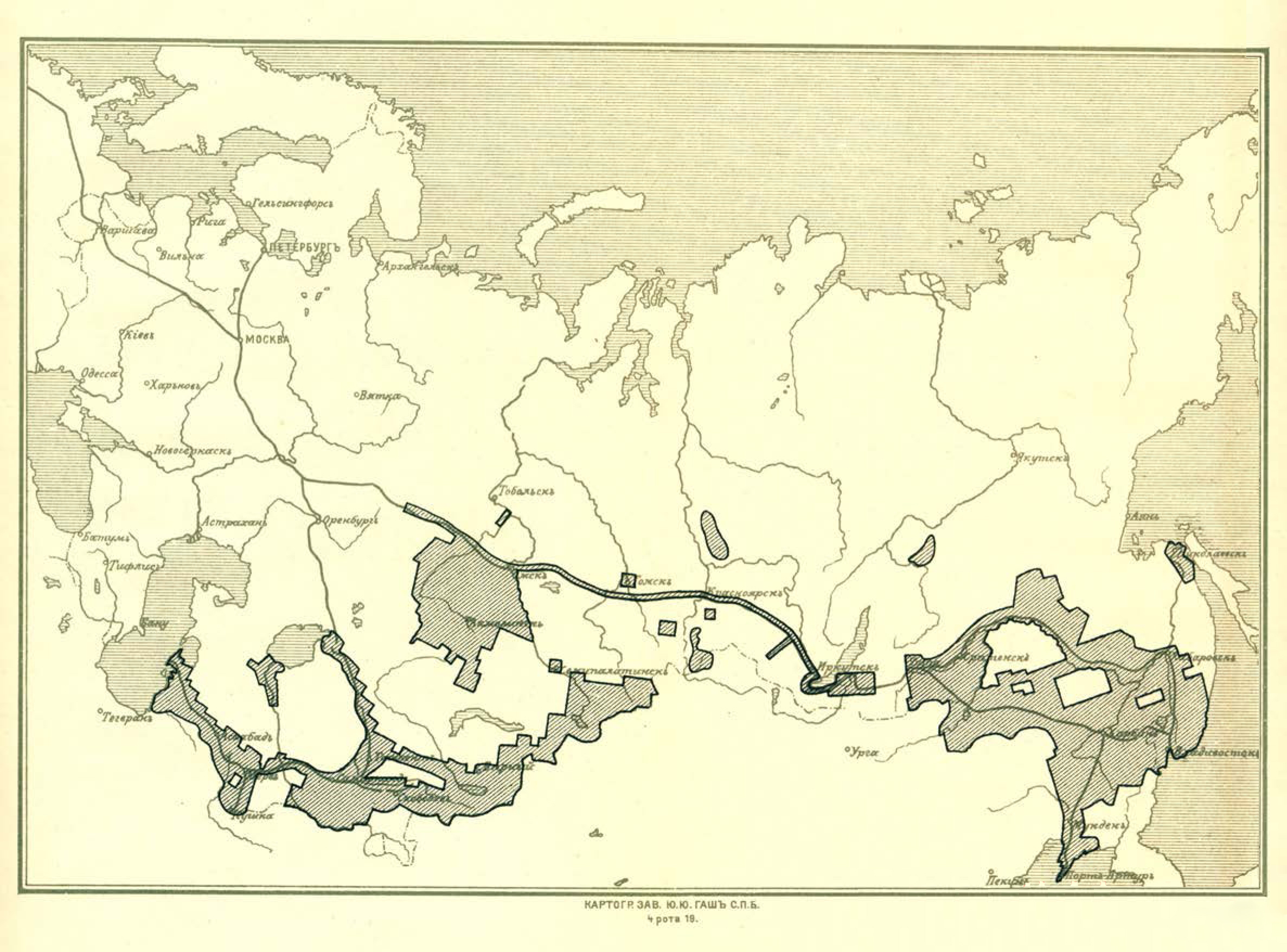 Map of the Russian Imperia's Asian part 2 verst